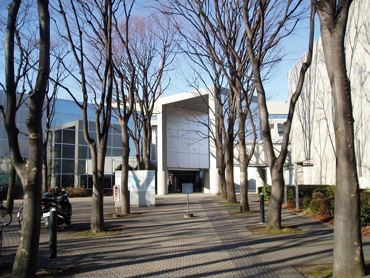 Arakawa Campus (Faculty of Health Sciences), Tokyo Metropolitan University. Located in Arakawa, Tokyo, Japan.